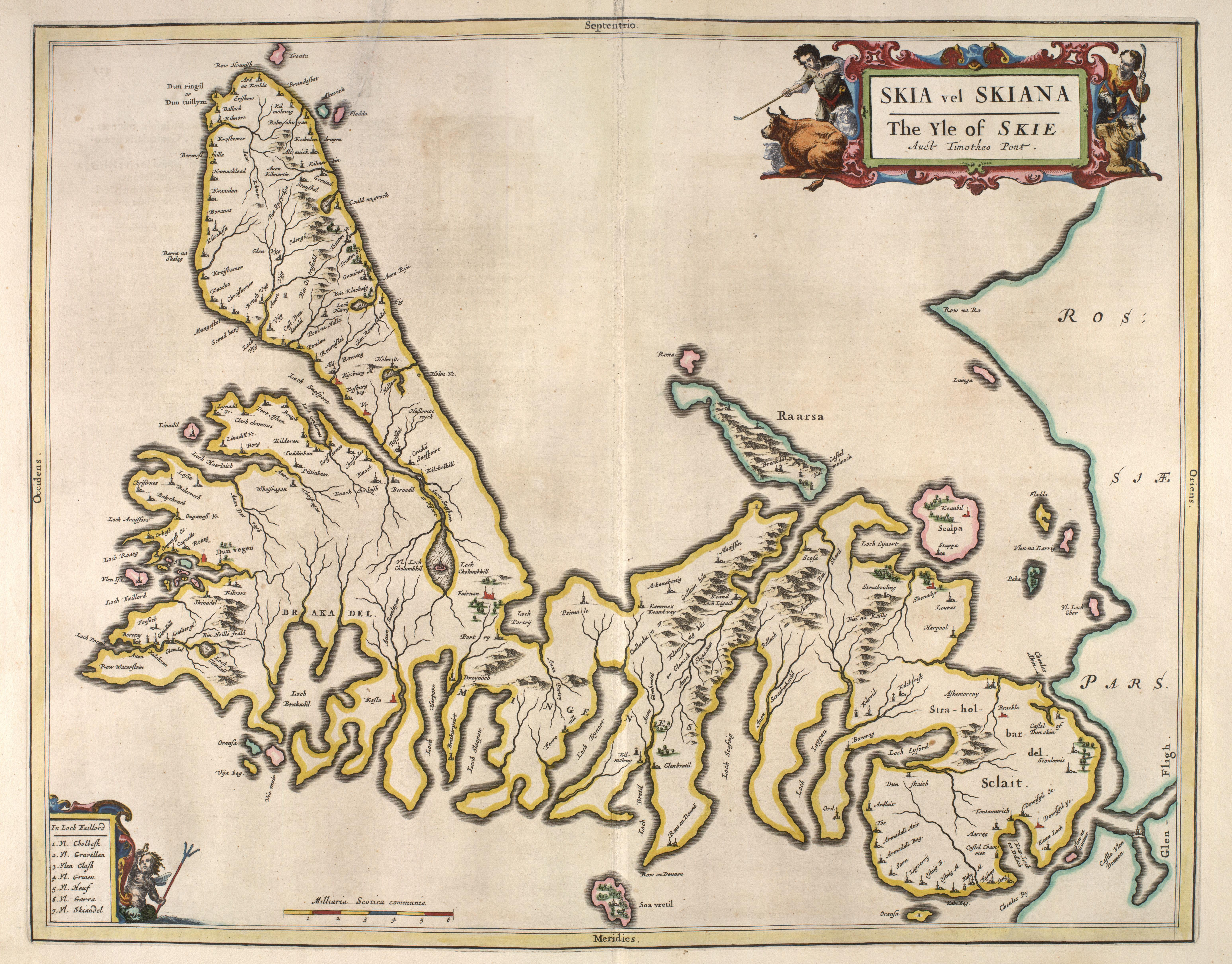 SKIA - The Isle of Skye